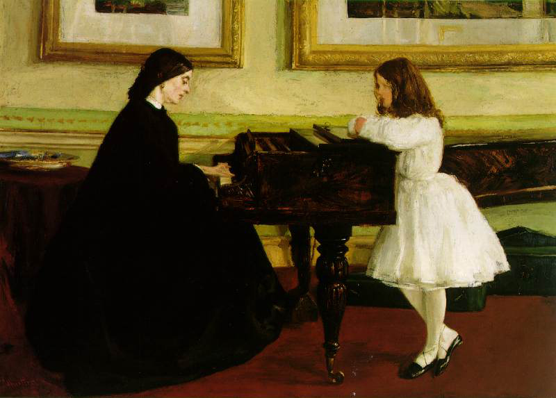 At the Piano